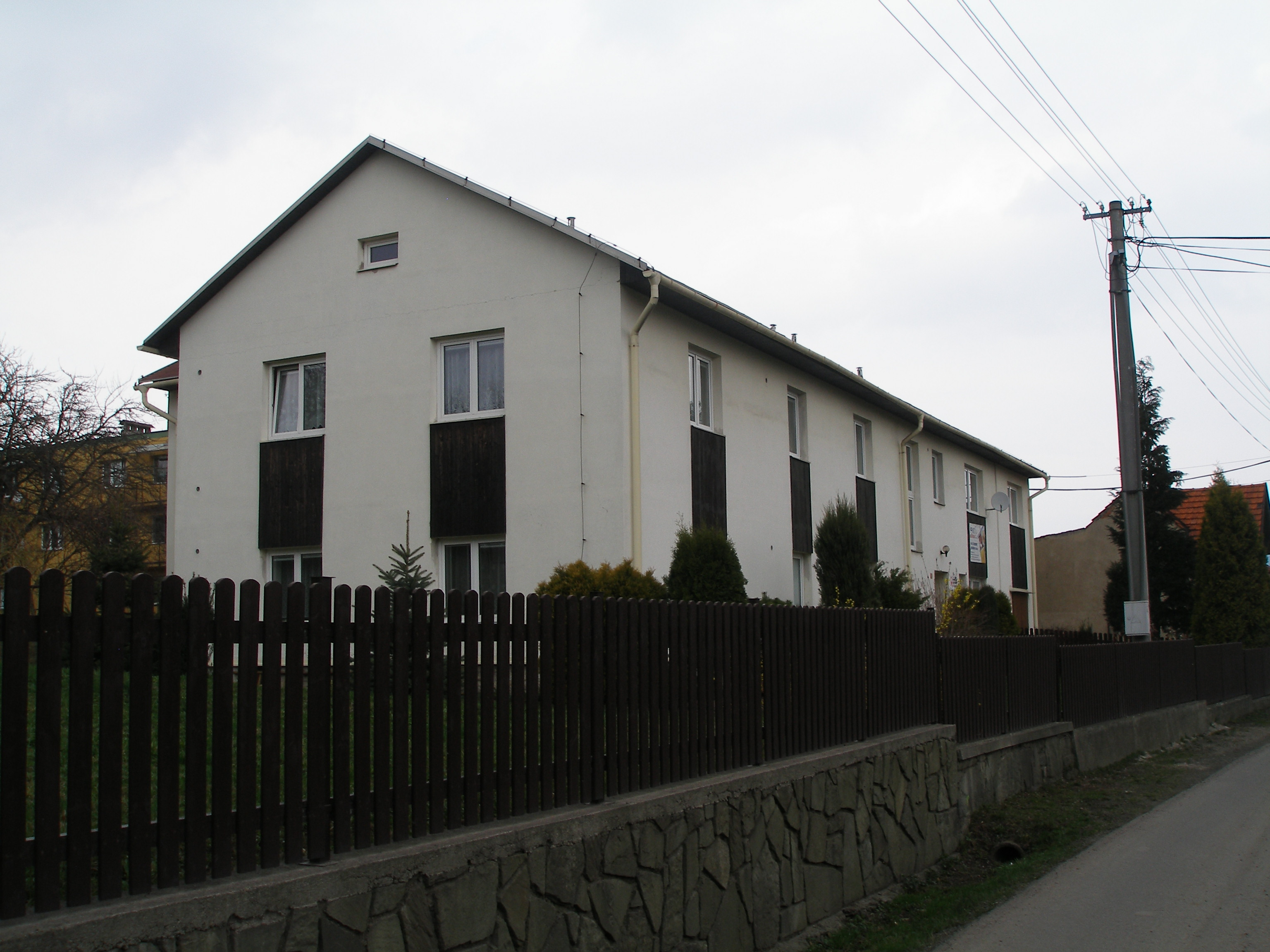 Retirement home in Mořkov.